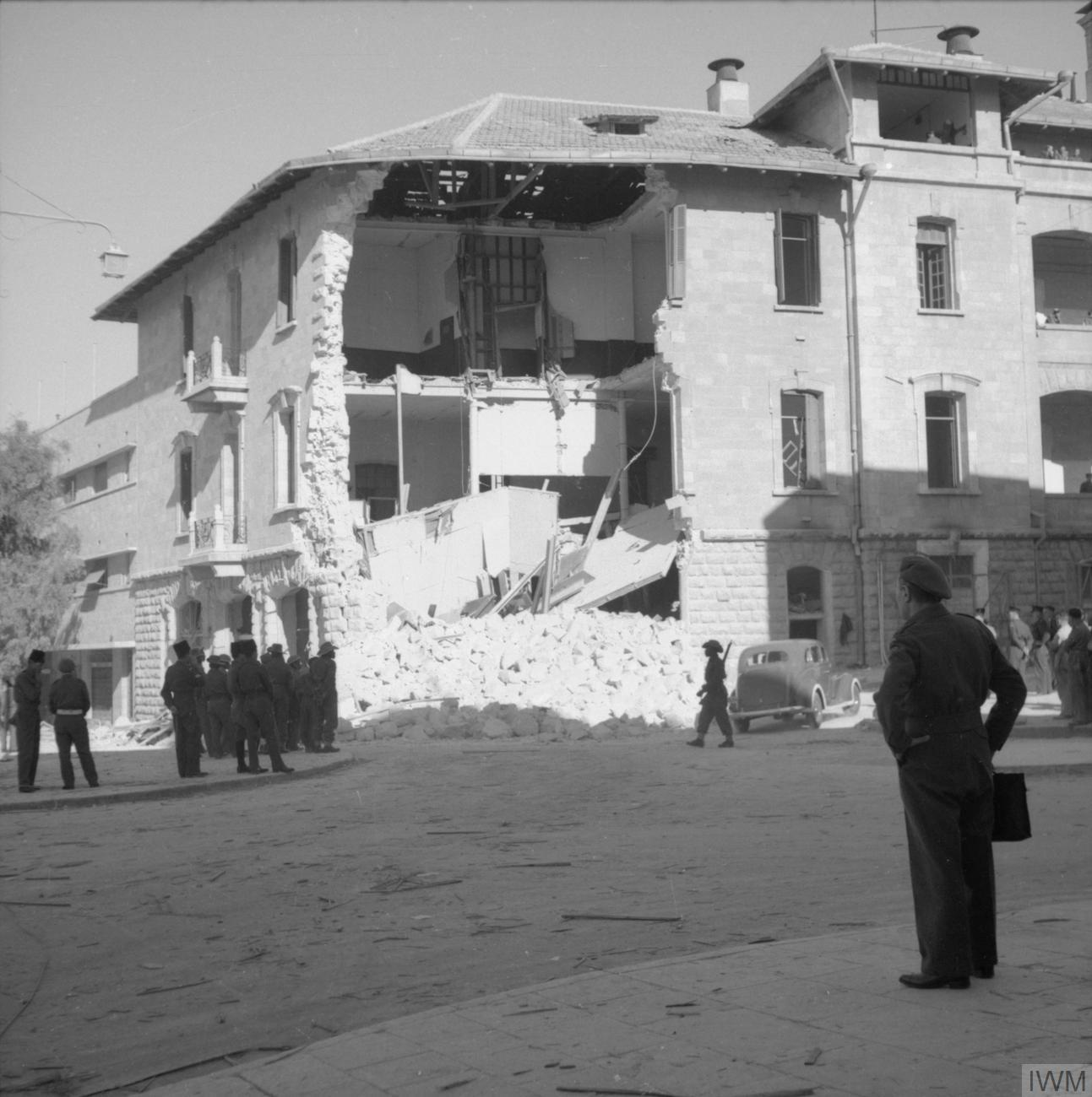 British Forces in the Middle East, 1945-1947 Exterior view of damage done by a terrorist bomb to the Criminal Investigation Department (CID) Headquarters building in Jerusalem.